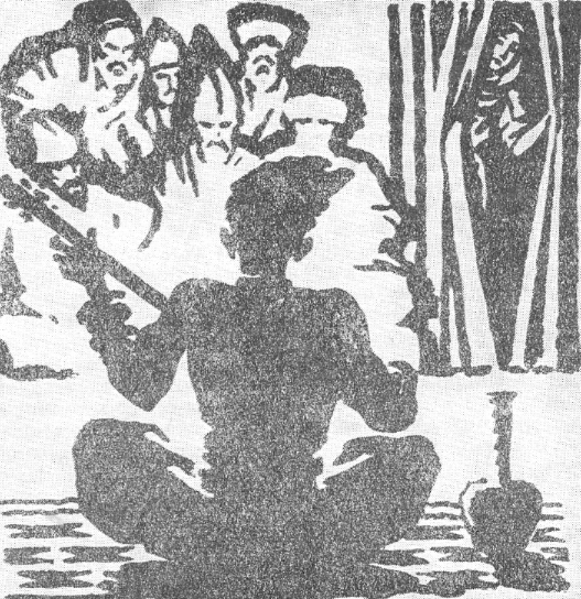 Return of Ashiq Qarib